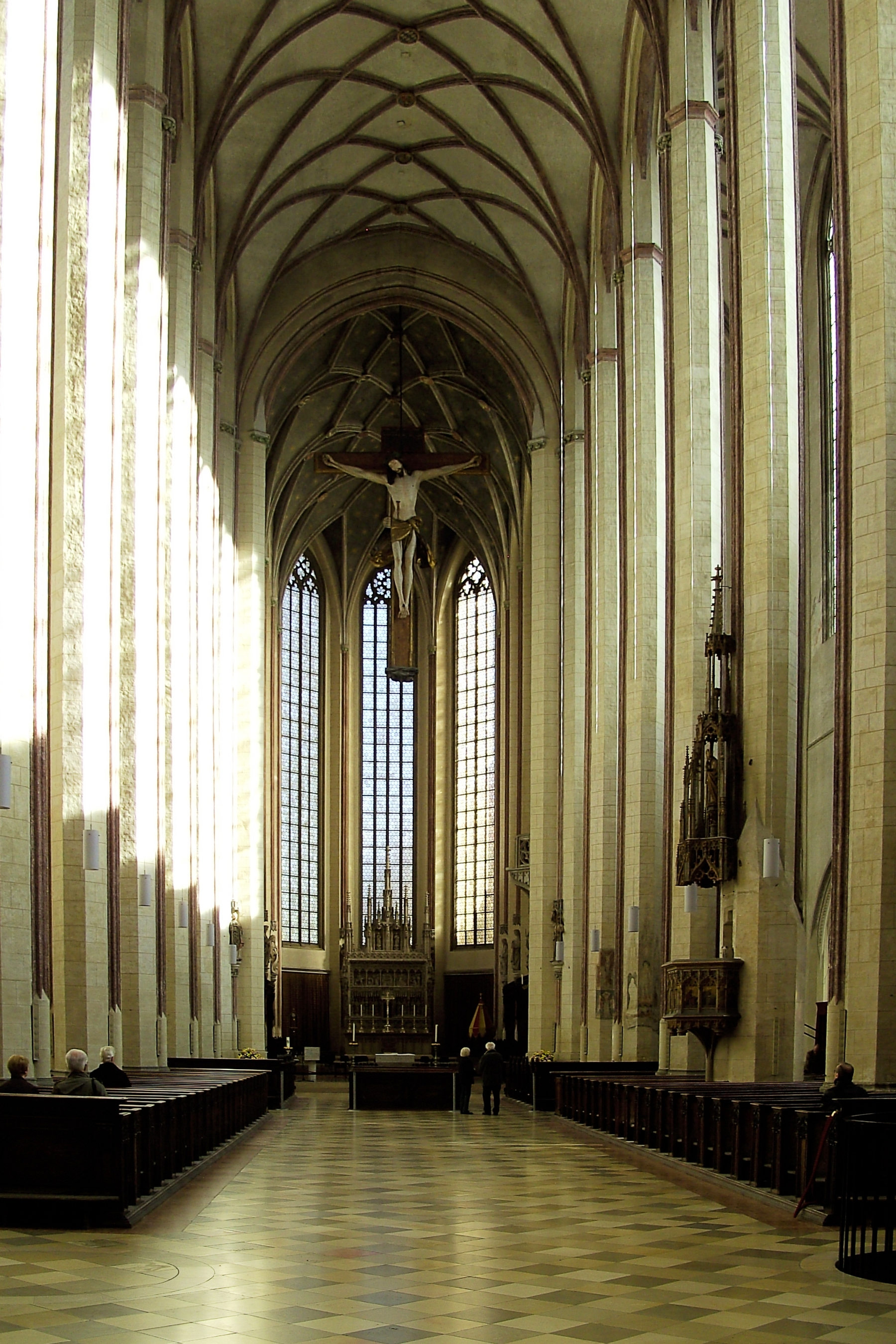 Landshut, Church of St Martin and Castulus. Interior view of the main aisle from west.